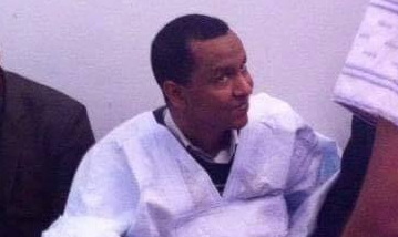 "A rare photo of M’kheitir since his arrest, at the appeals court in April 2016"